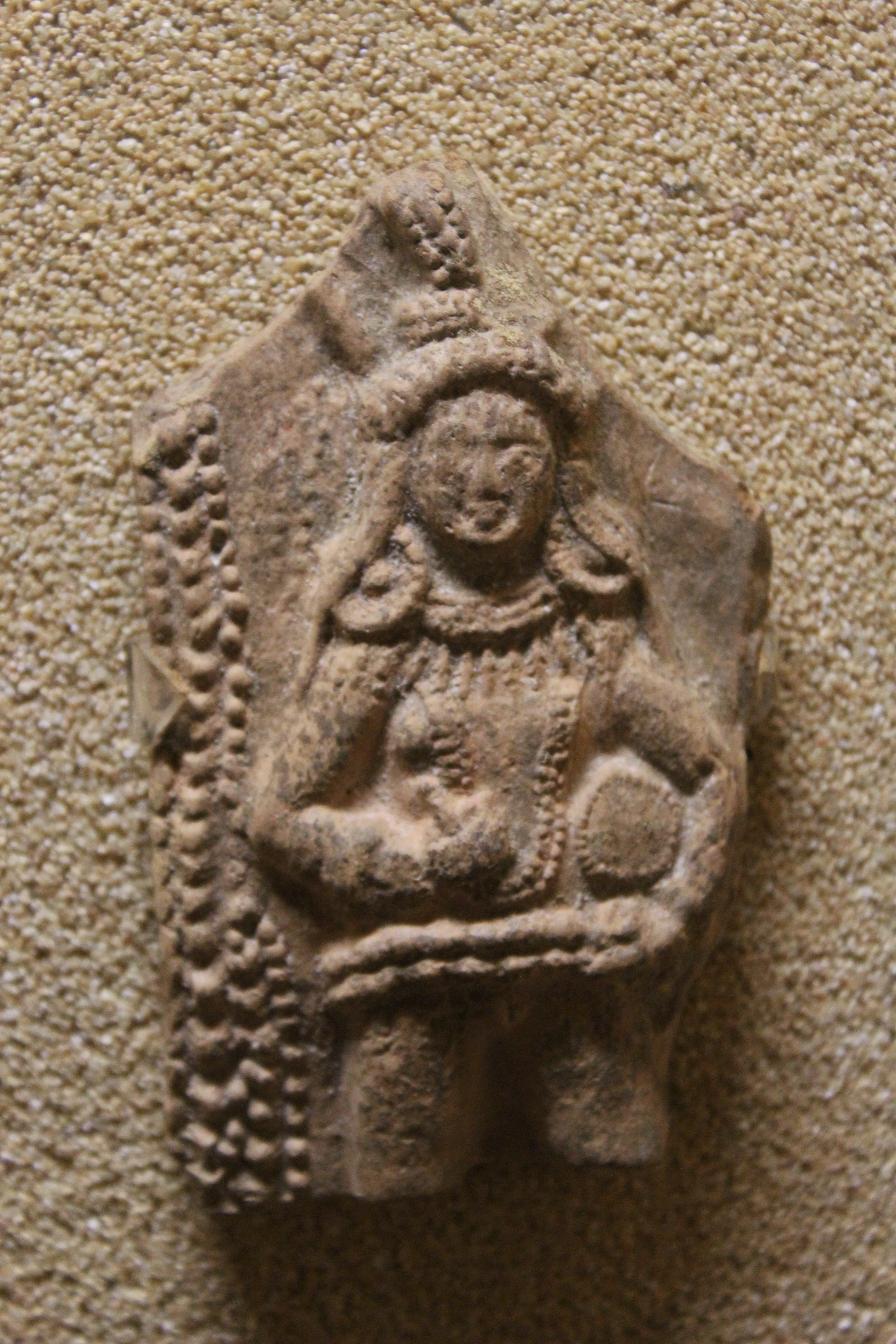 Terracotta plaque and seal, Tilpi and Dhosa, South 24 Parganas- Early history gallery- State Archaeological Museum- 1, Satyen Roy Rd, Auddy Bagan Basti, Behala, Kolkata, West Bengal 700034- First floor